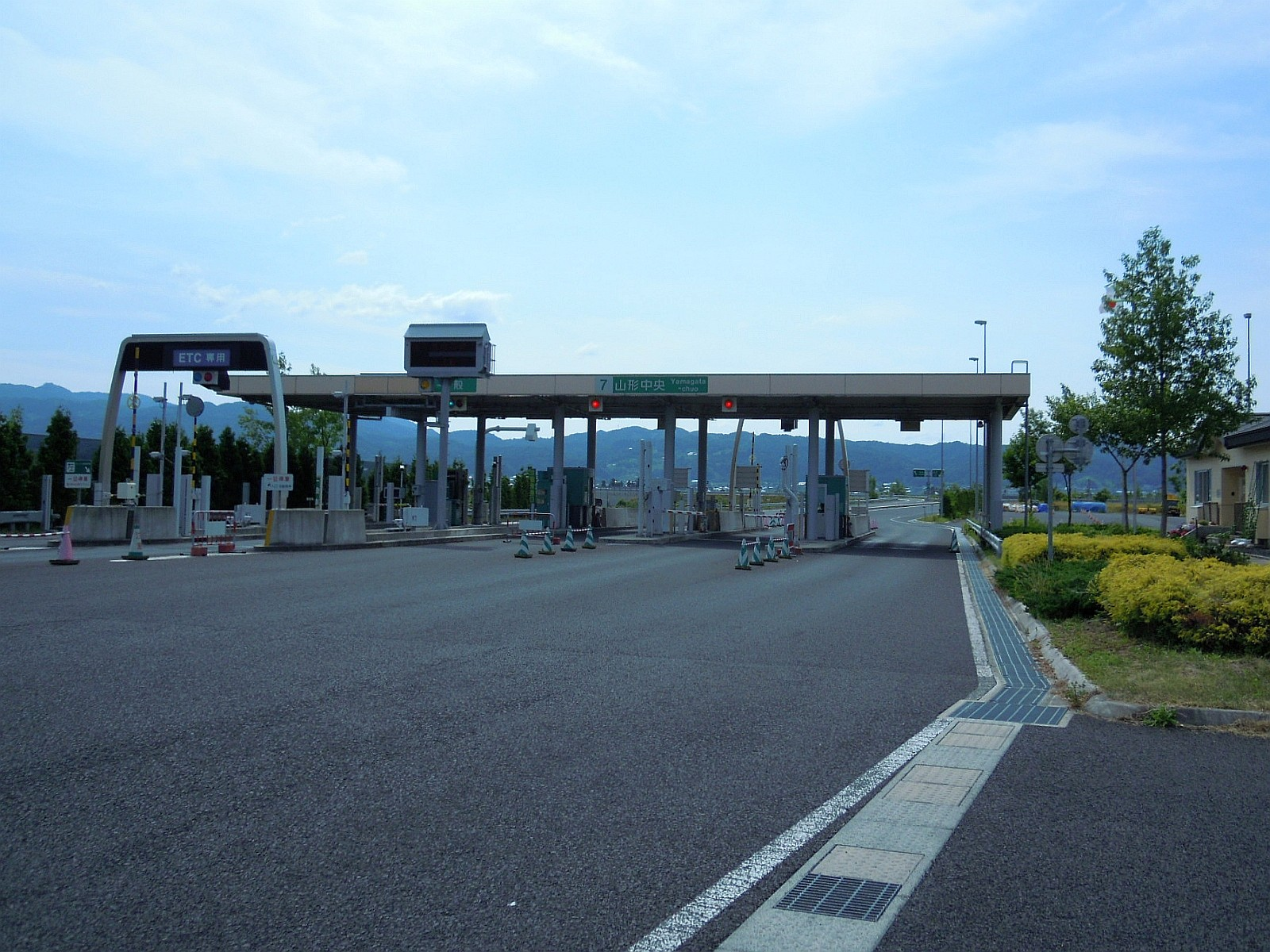 This Interchange, Yamagata-Chuo Interchange, is on Tohoku-Chuo Expressway, in Yamagata City, Yamagata Prefecture, Japan.